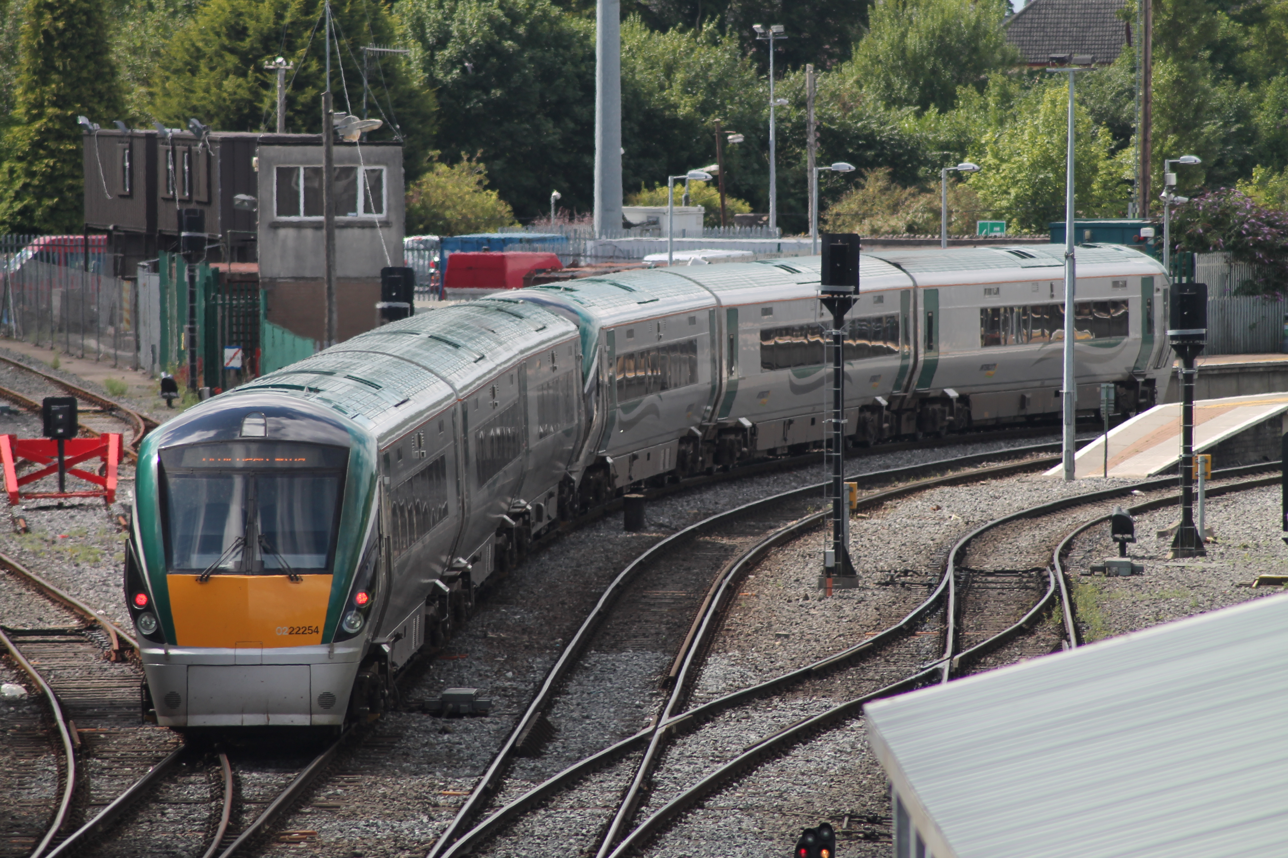 22000 Class ICR at Drogheda. 10/08/2015